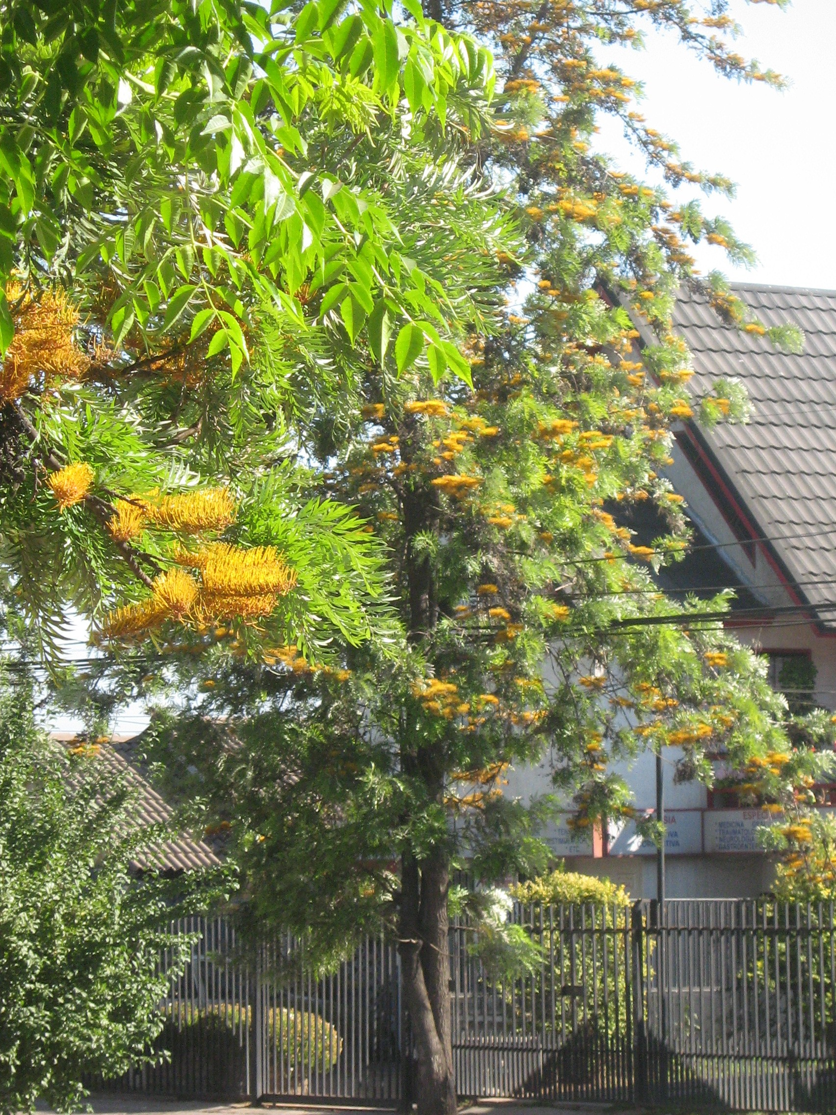 Grevillea robusta R.Br., (Proteaceae)